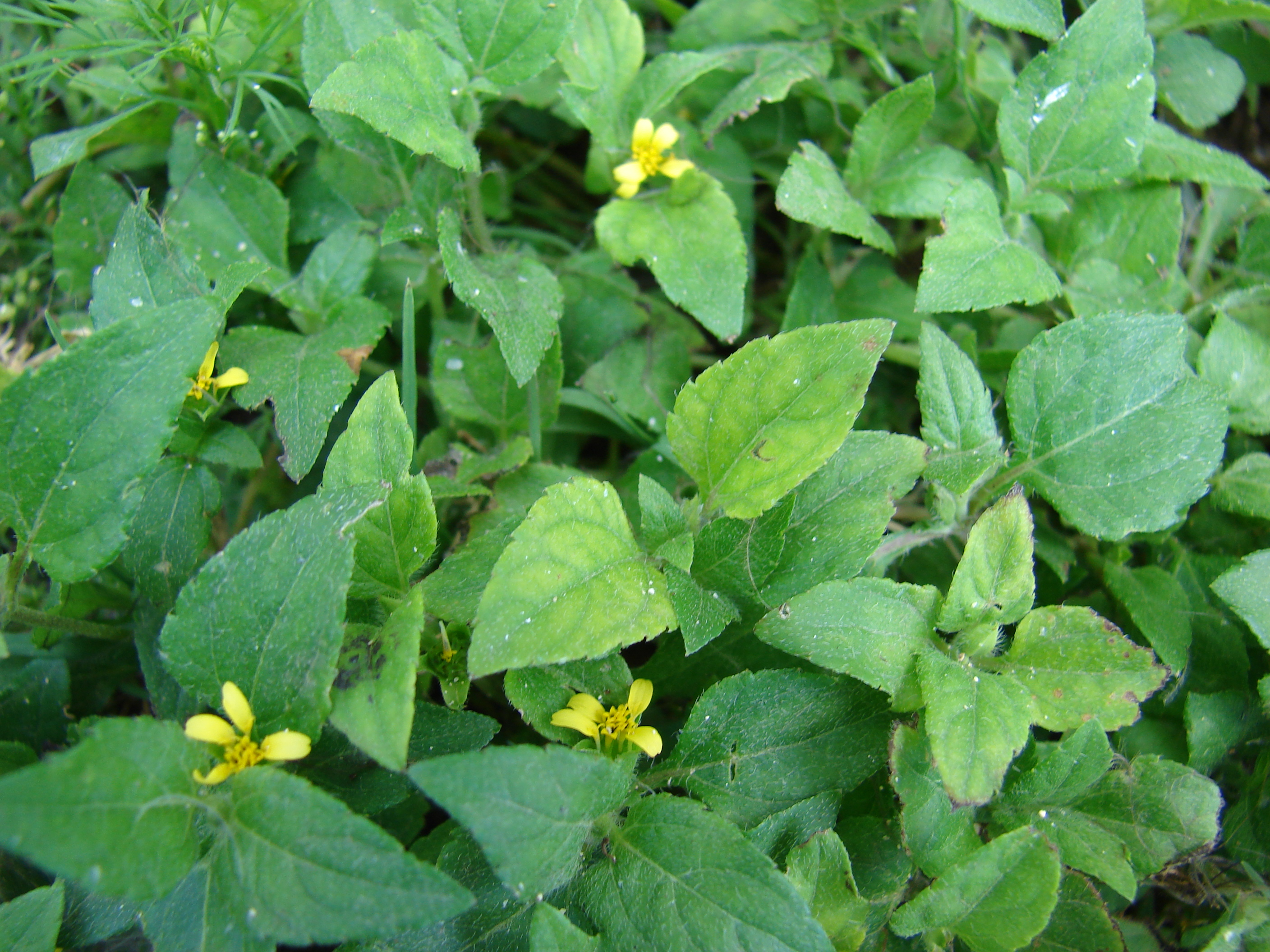 Calyptocarpus vialis (flowering habit). Location: Midway Atoll, Charlie barracks Sand Island